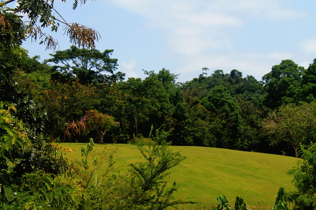 A part of the Obuasi golf course